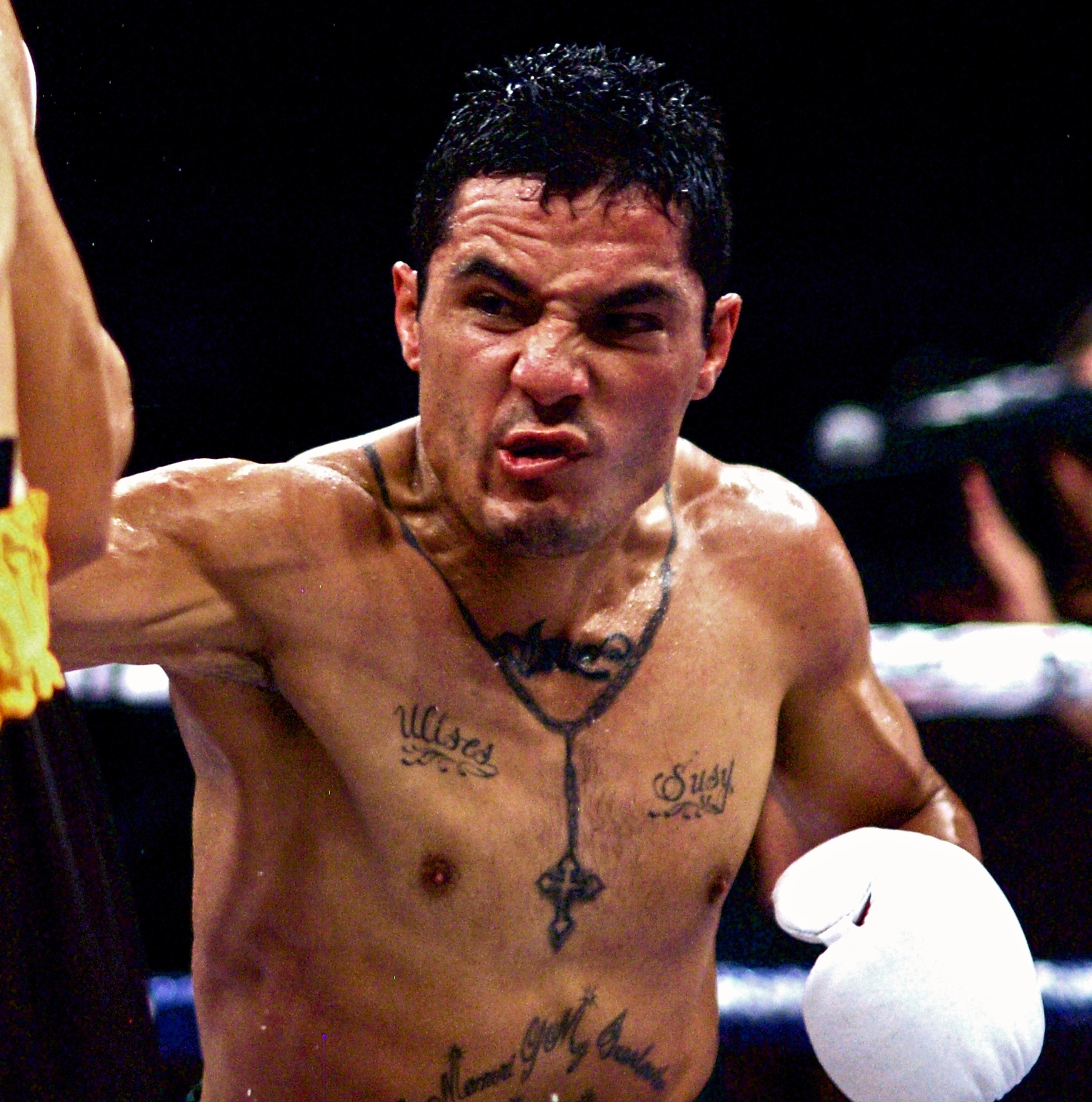 Víctor Terrazas fighting against Junta Sekimoto at the Mesón de los Deportes in Tepic, Nayarit, Mexico on October 9, 2010.